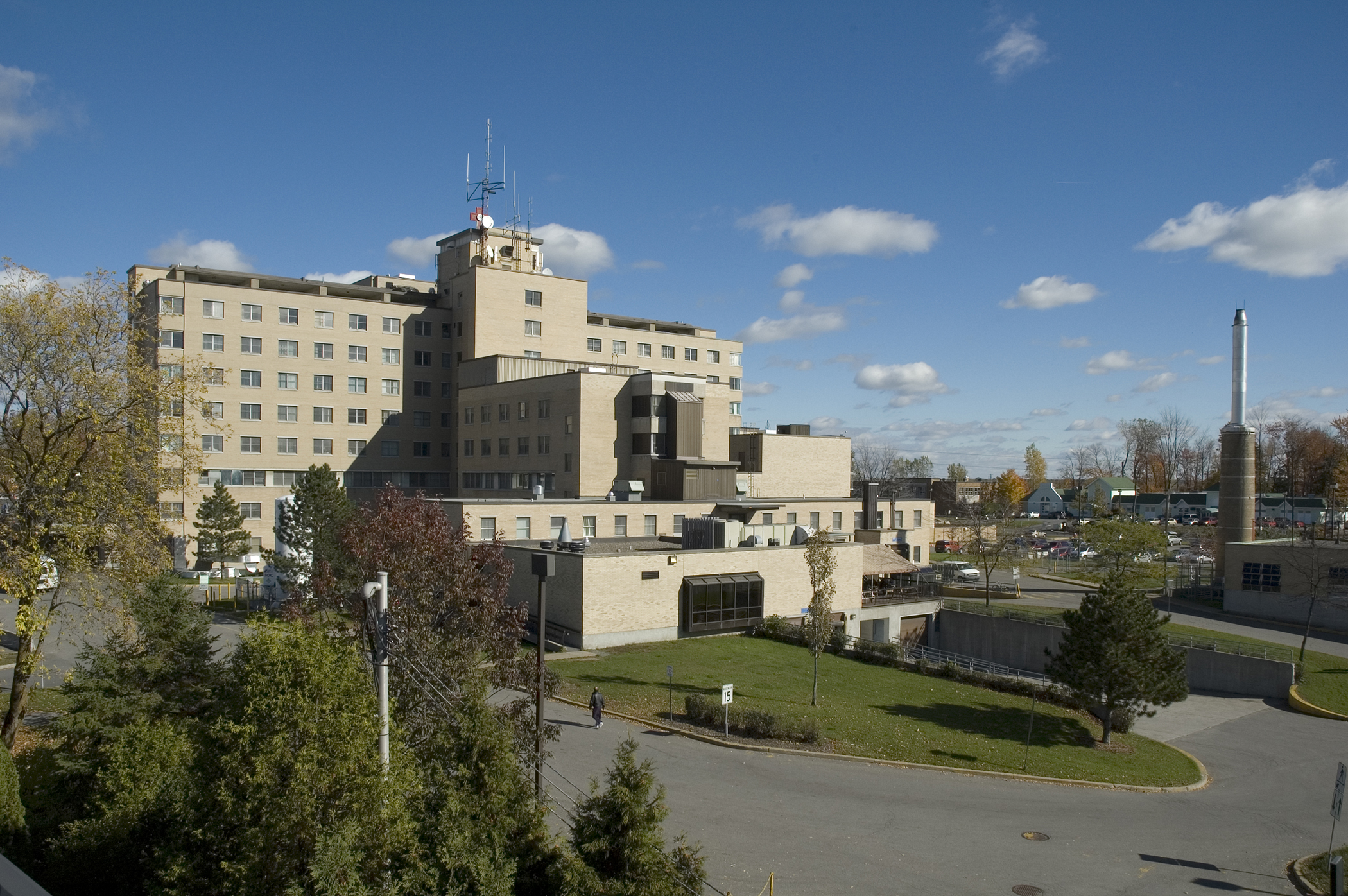 Saint-Jerome Hospital (CSSS of St-Jerome )